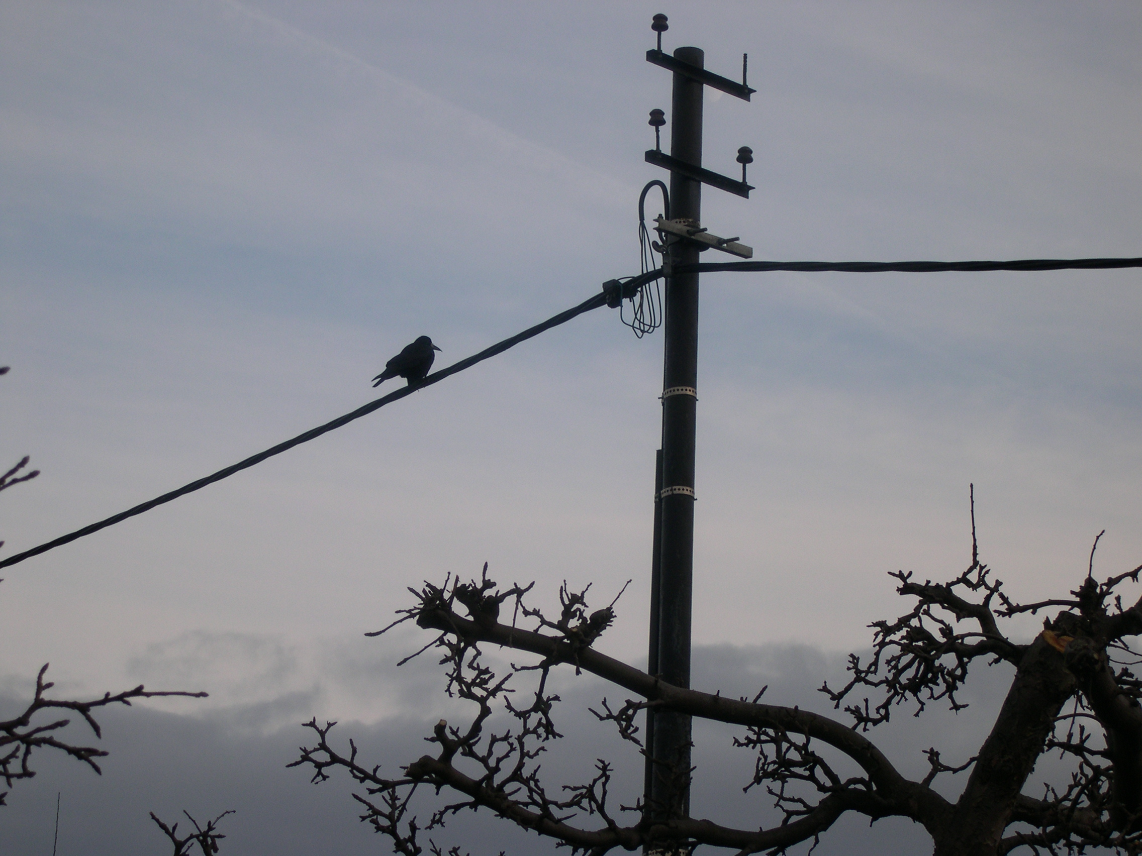 Wooden (?) pole in Dresden, Germany